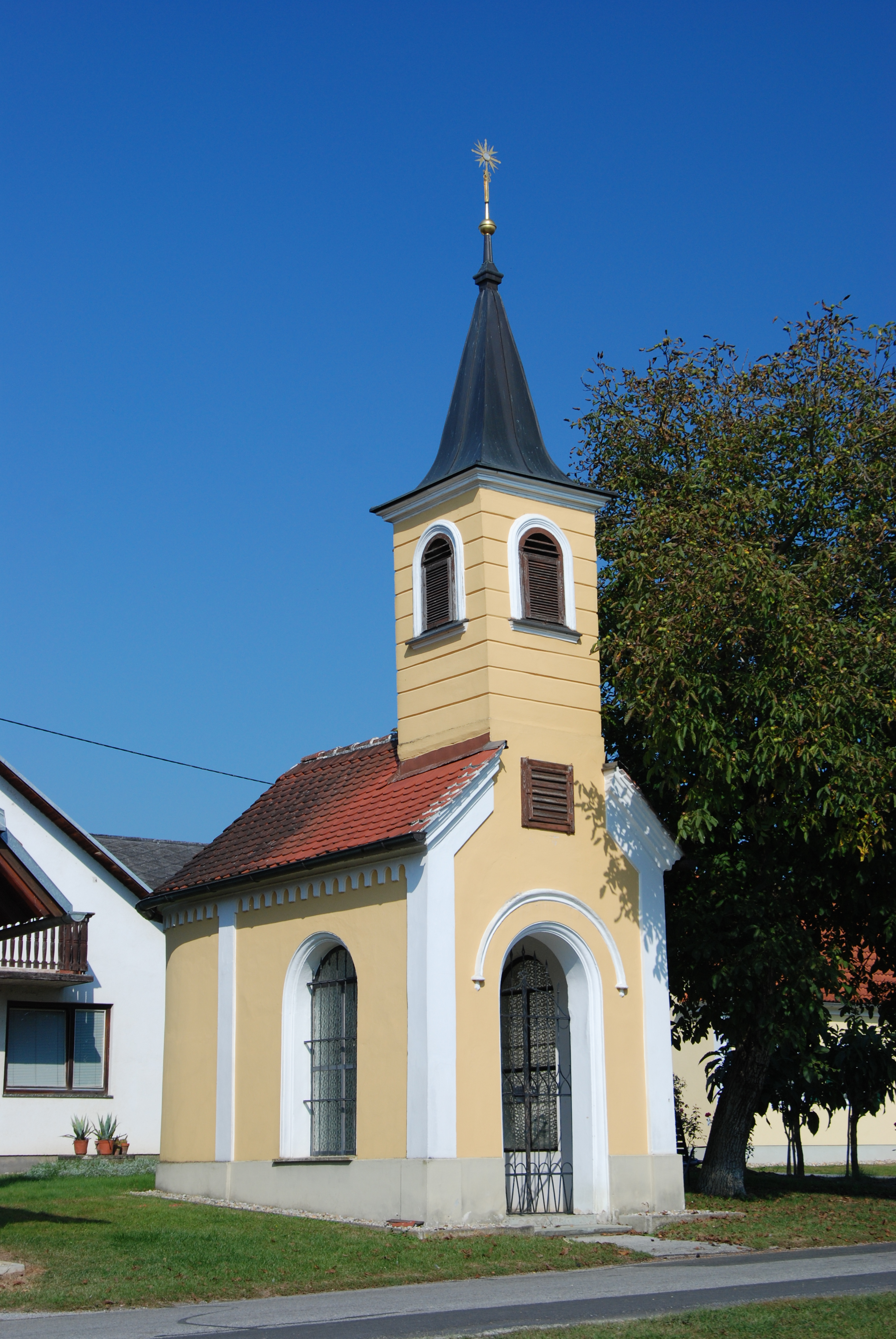 Ortskapelle Speltenbach